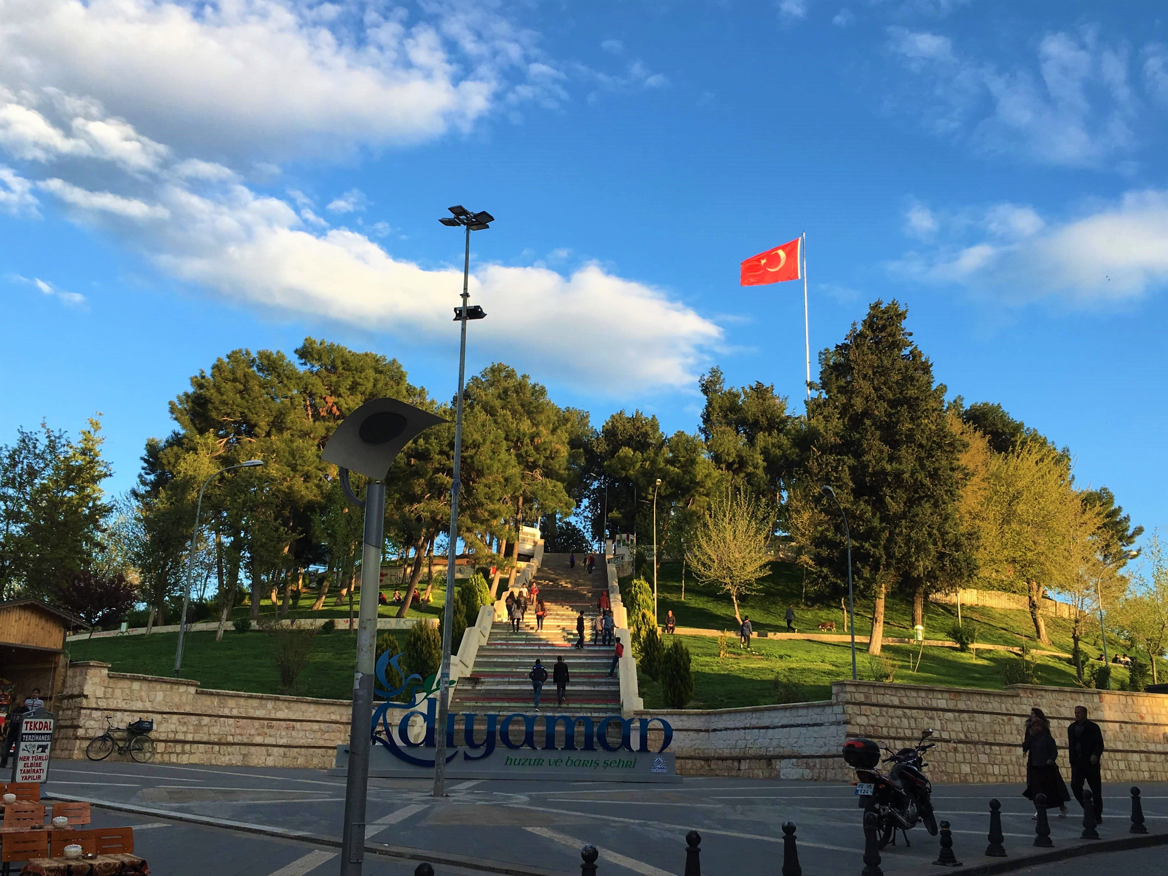 A front view of Adıyaman Castle. Historical Hısnımansur Castle was there until it was restored in 2013.